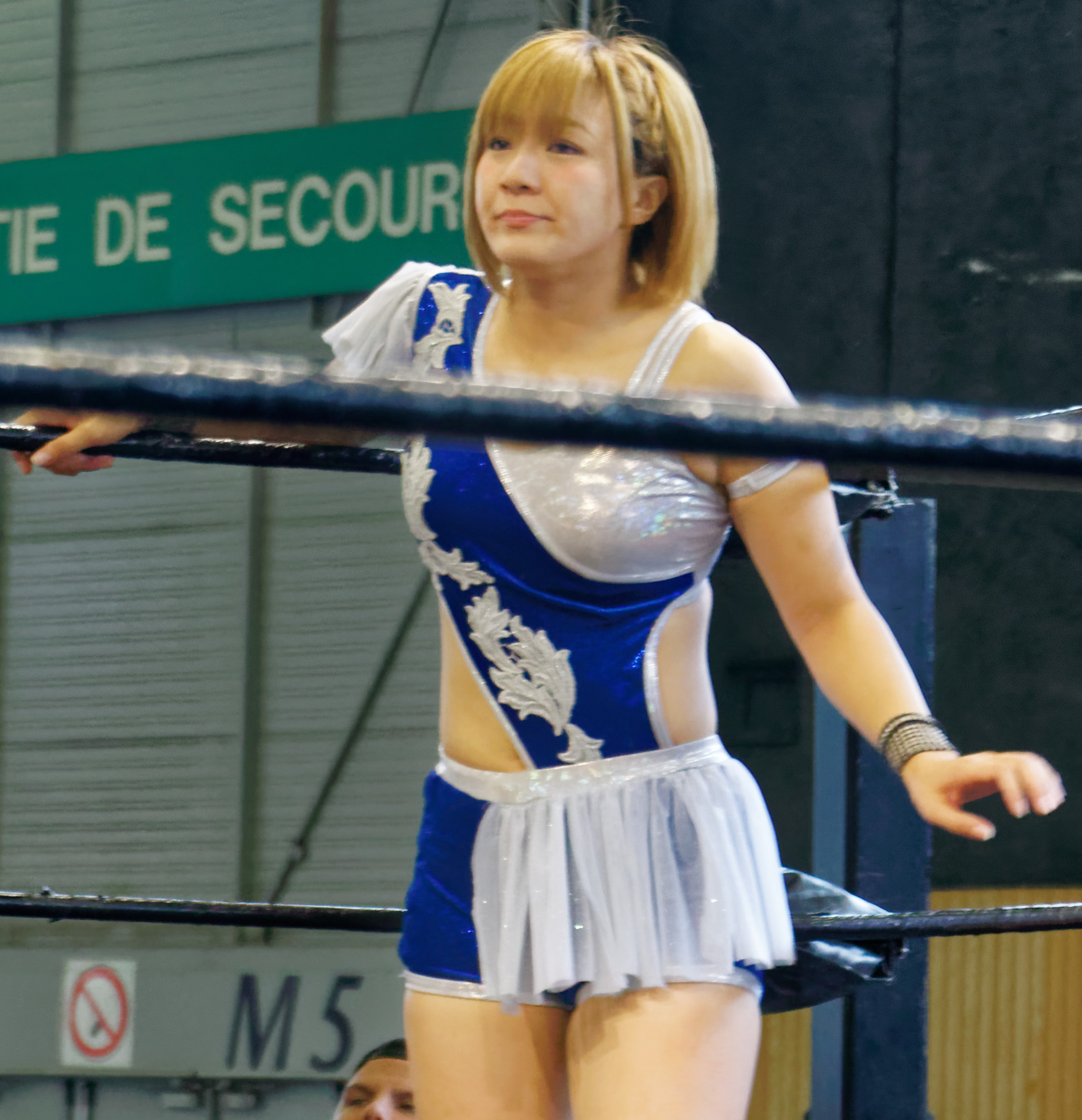 Yoko Bito def. (pin) Jazz Lanka Info on the match : Match Extra ( Japan Expo est LE rendez-vous des amoureux du Japon et de sa culture, du manga aux arts martiaux, du jeu video au folklore nippon, de la J-music a la musique traditionnelle : un evenement incontournable pour tous ceux qui s'interessent a la culture japonaise et une infinite de decouvertes pour les curieux. Le tout a 30 minutes de Paris ! )